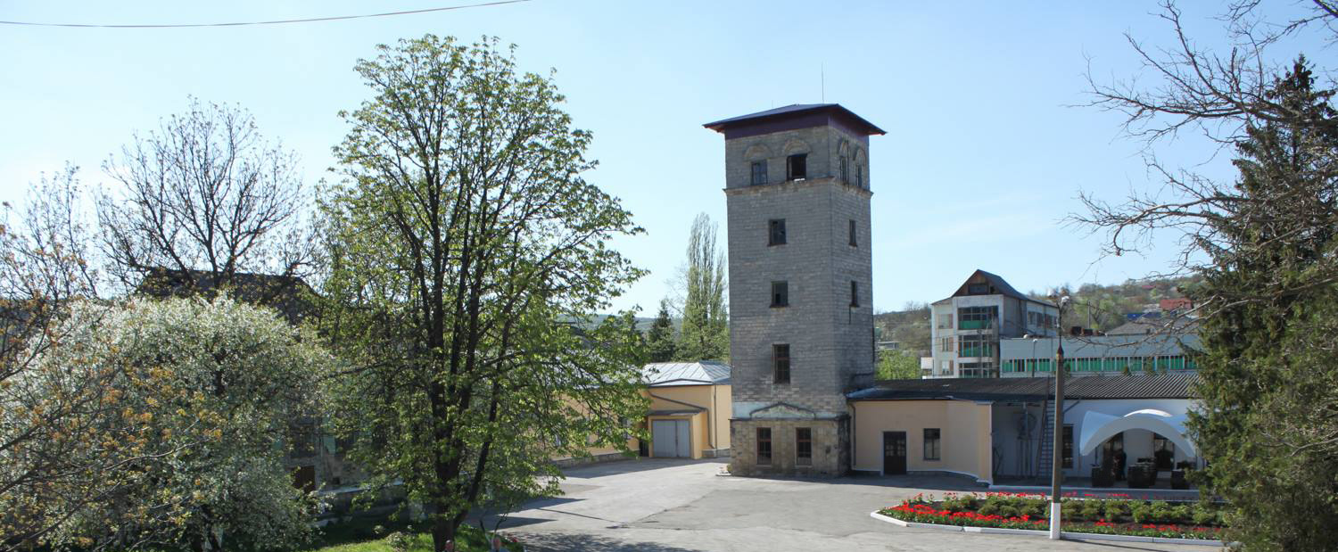 Vinaria din satul Bardar, deja din 1940 distilerie mică a devenit o mare companie de vin și coniac. În 1971, fabrica a devenit "Fabrica de vinuri experimentală din Bardar". A fost una dintre cele mai mari fabrici și cele mai rare fabrici experimentale în URSS.